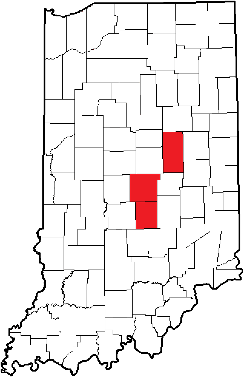 Pioneer Conference within Indiana